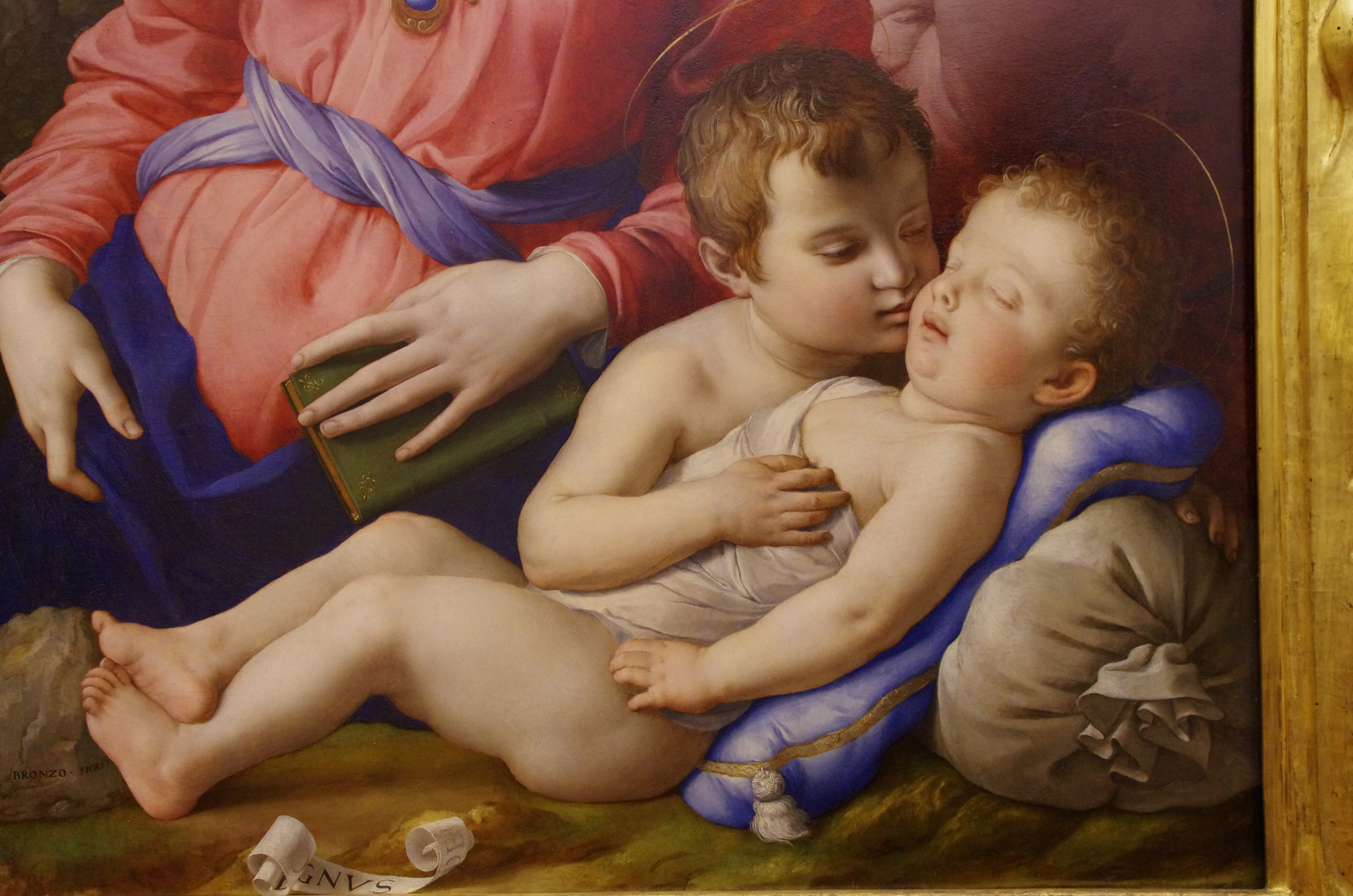 03 2015 Holy Family Panciatichi-Baby Jesus and Saint John-Agnolo Bronzino - Uffizi Gallery (Florence) Photo Paolo Villa FOTO9245